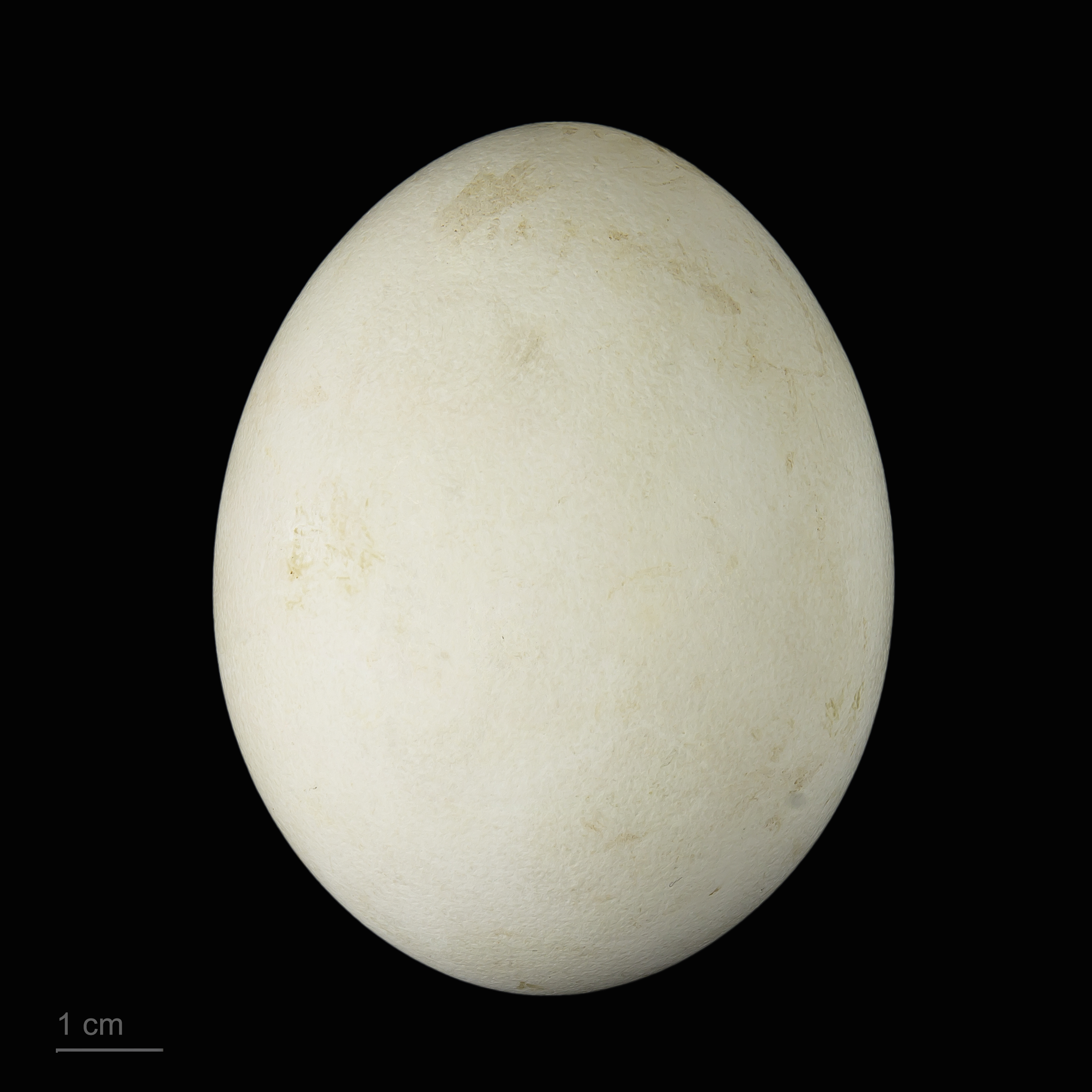 Eggs of white-tailed eagle collection of Jacques Perrin de Brichambaut.